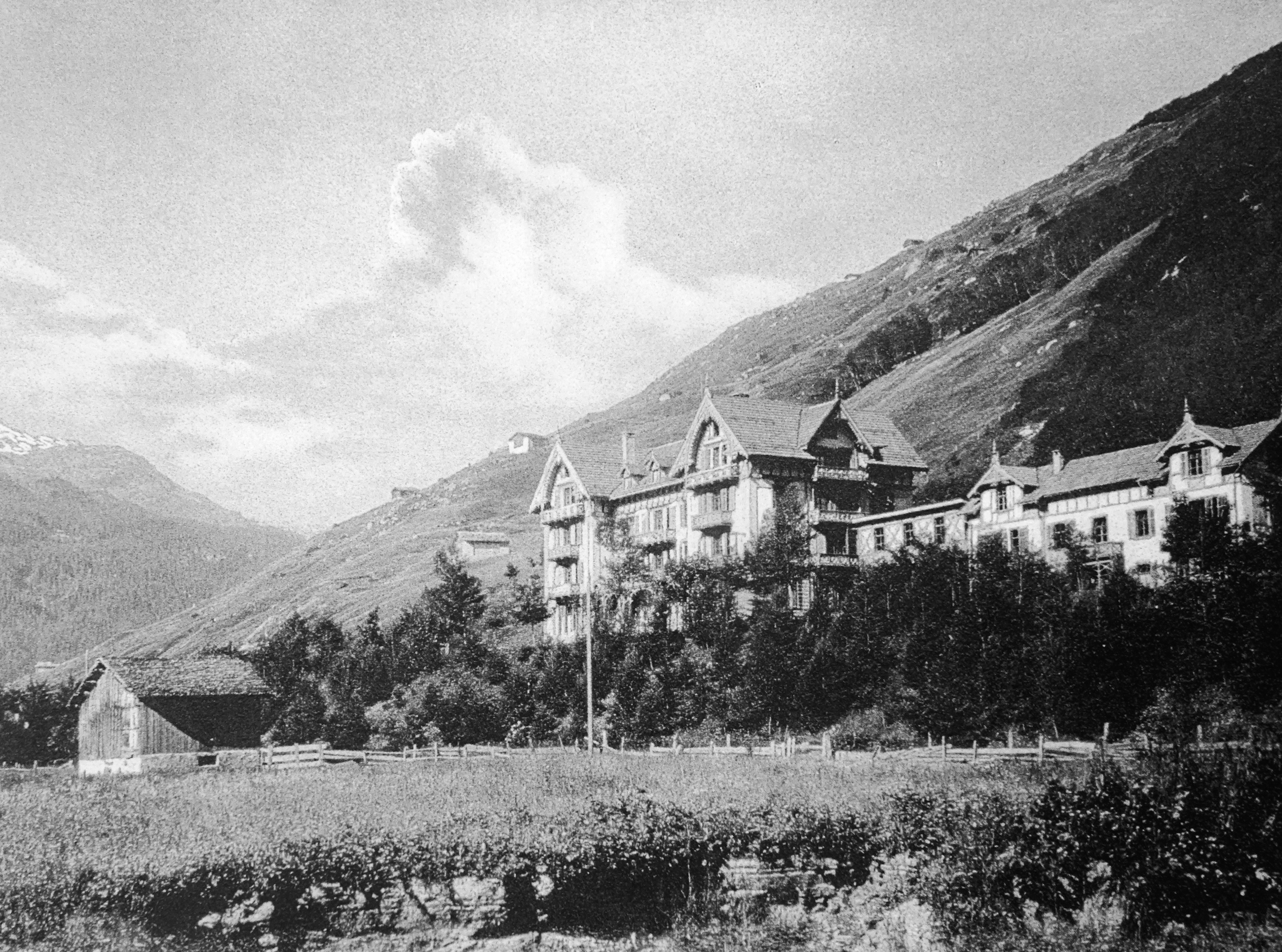 Therme Vals um 1910